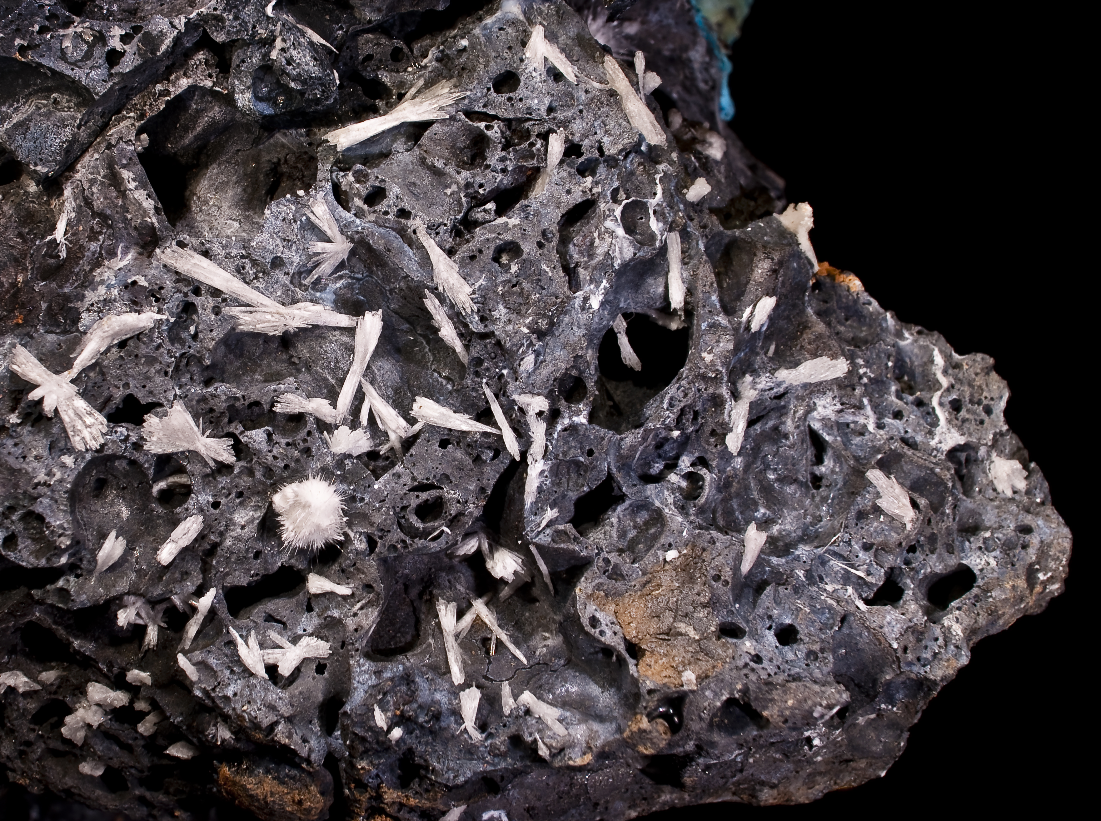 Pharmacolite - Villanière (slag locality), Salsigne, Mas-Cabardès, Carcassonne, Aude, Languedoc-Roussillon, France - View 7.8cm